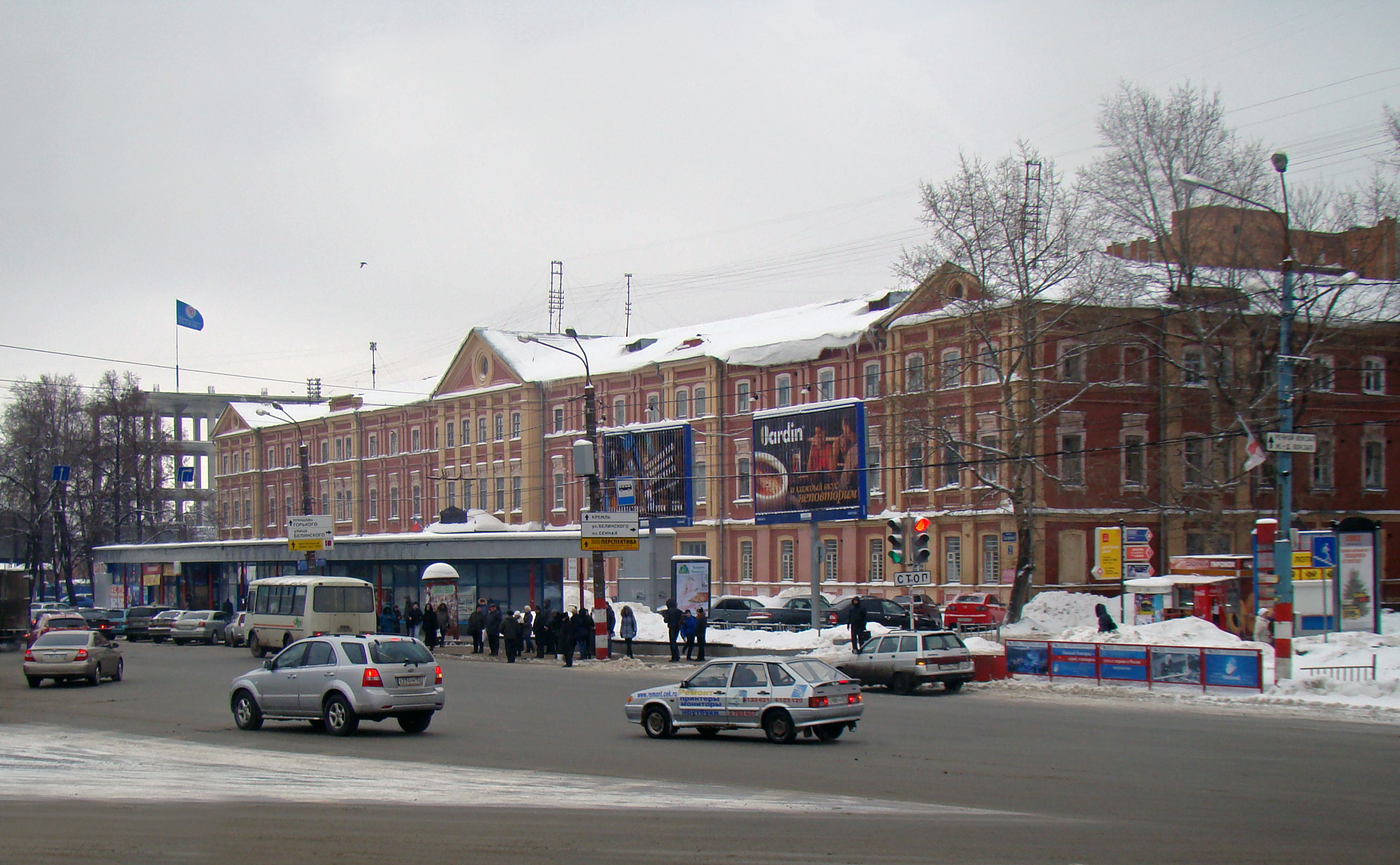 Former Widows house of Bugrov. In 1883 a Russian merchant N.A.Bugrov offered to the authorities to build up for the mendicants a building in front of the Krestovozdvizhensky monastery. The project was developed by the architect N.A.Fredlikh.